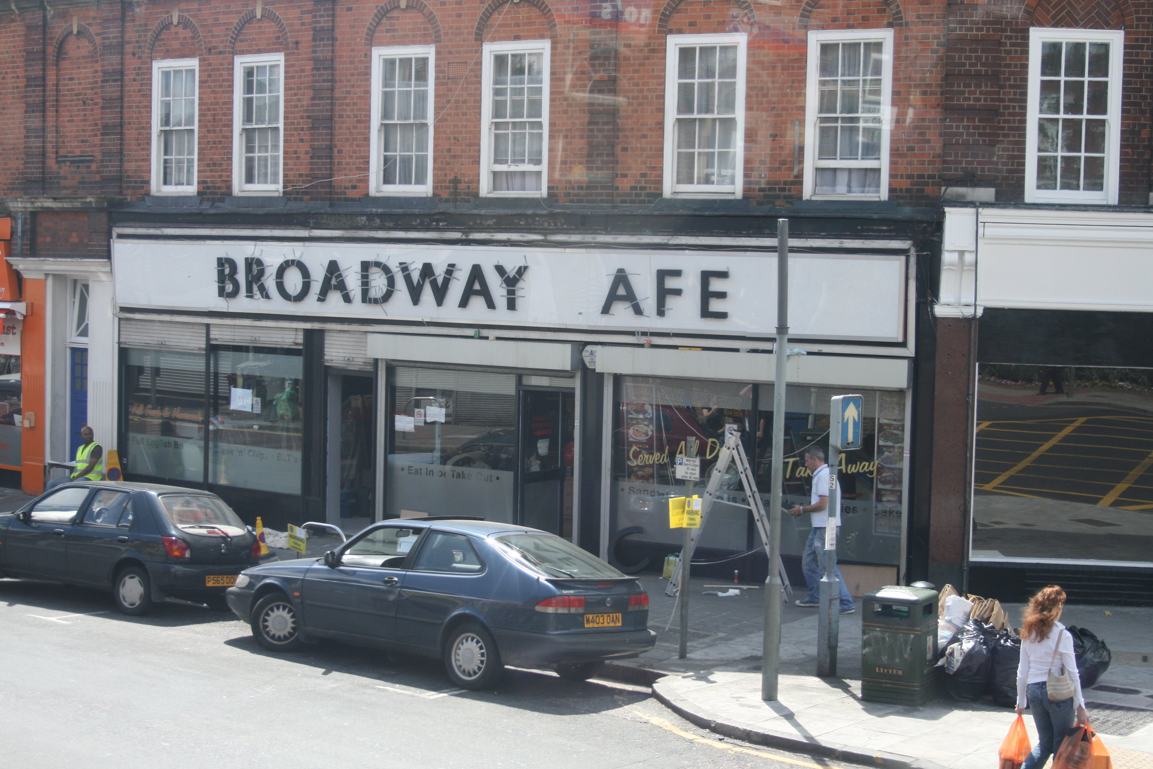 One of the film locations being prepared for a British drama called 'There for me'. Synopsis: Two people find themselves at a crossroads after suffering severe family tragedies. Director: Sallie Aprahamian Producer: Douglas Cummins Film company: Axiom Films.